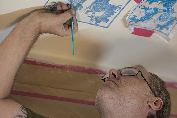 Wall paintings restoration